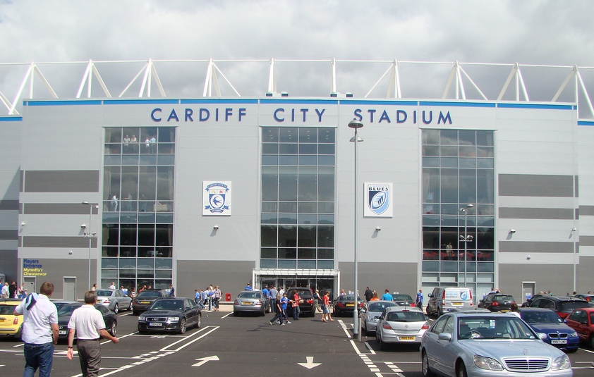 Front of the Cardiff City Stadium (Grandstand), Cardiff, Wales